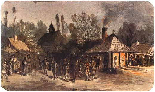 Departure of Polish partisans from the village in 1863